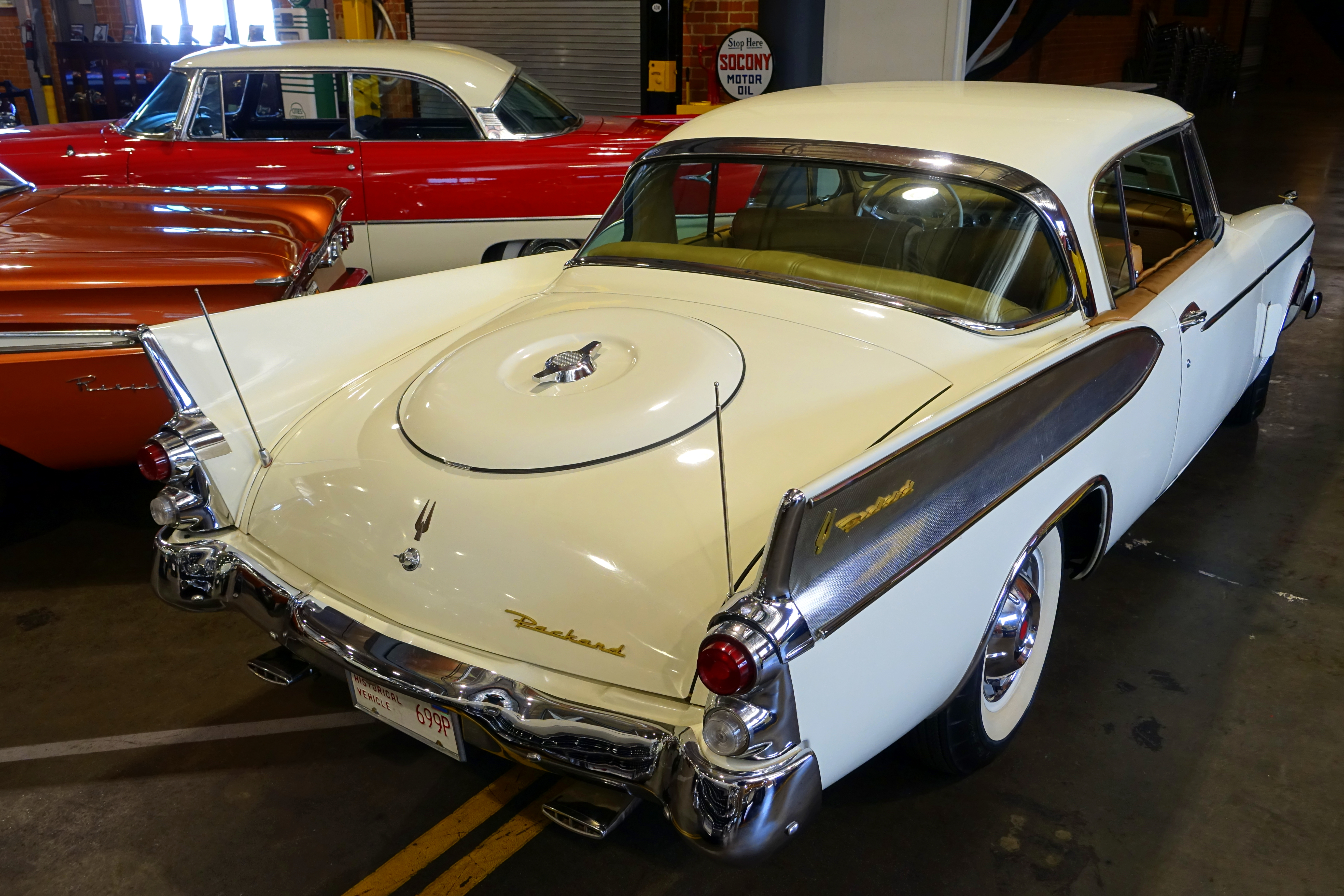 Exhibit in the Automobile Driving Museum - El Segundo, California, USA.